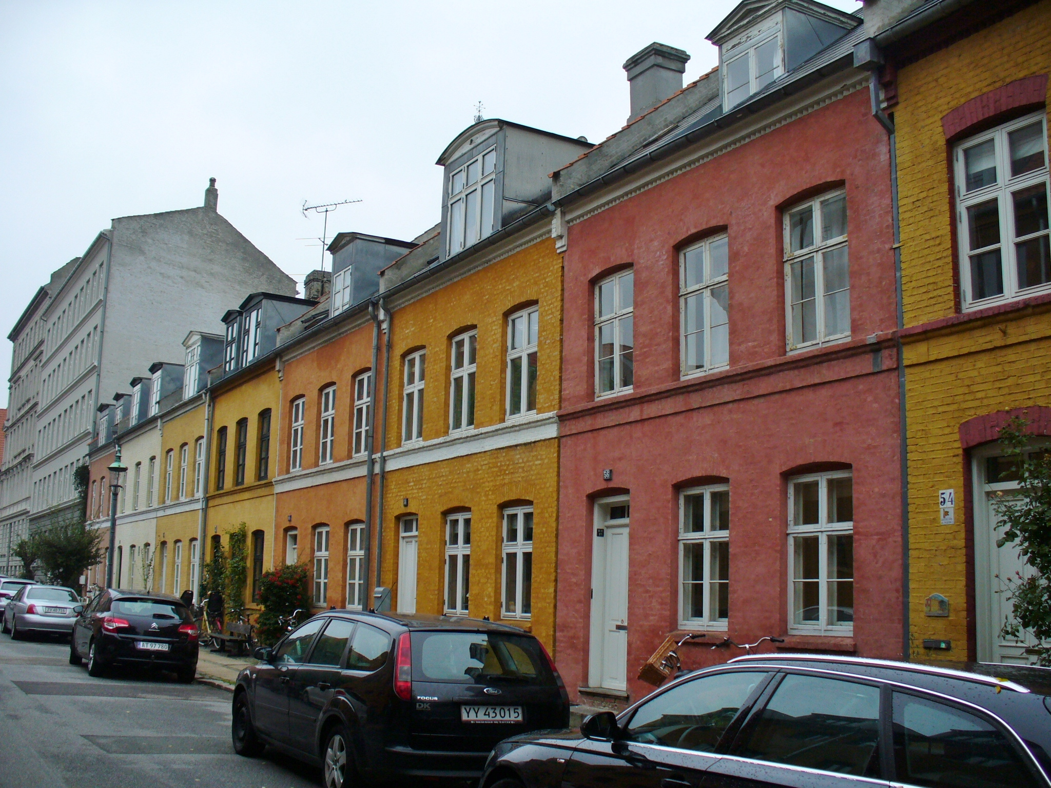 The street Sankt Pauls Gade in Indre By in Copenhagen.